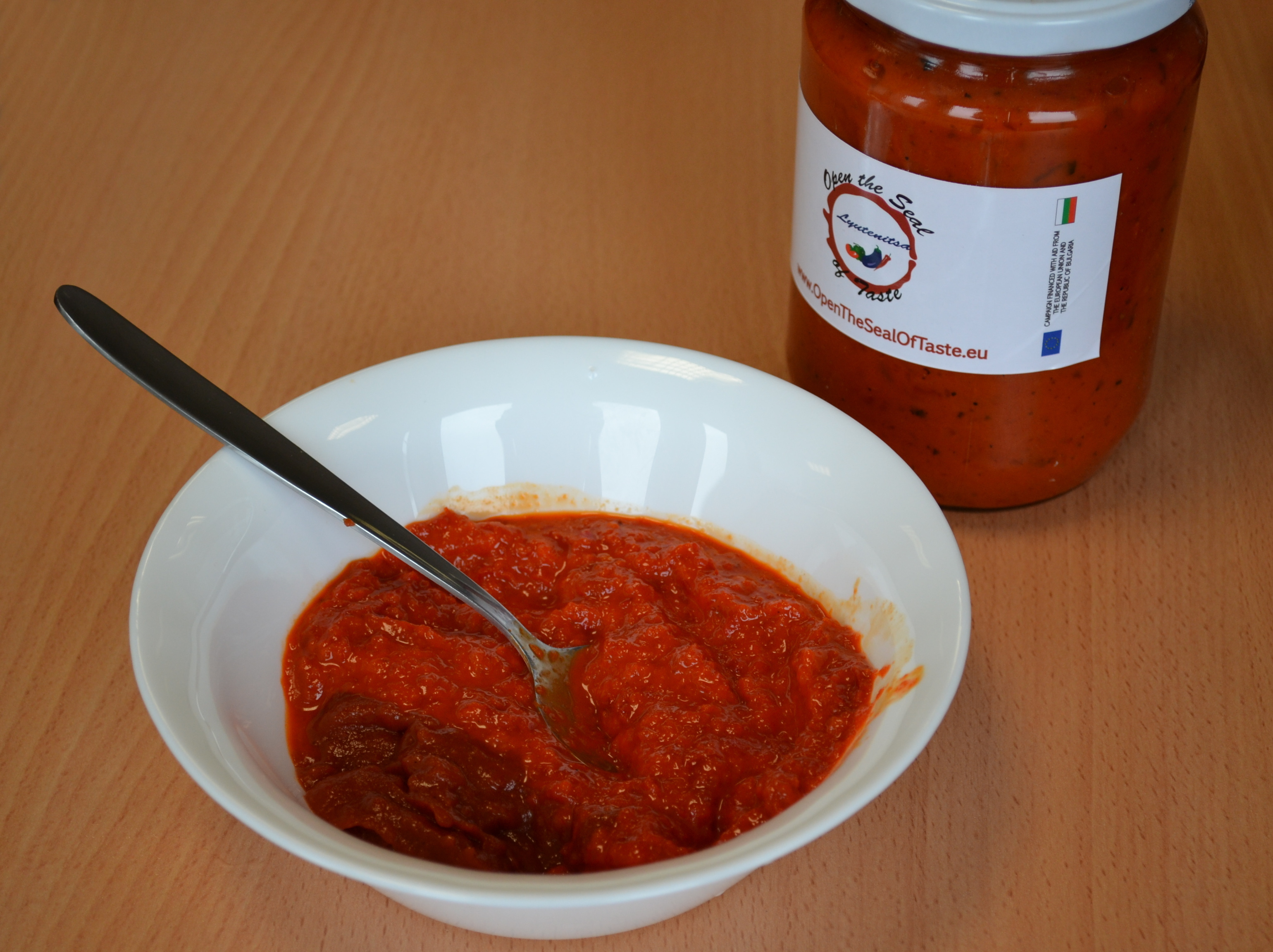 Plate of lyutenica with a sealed jar